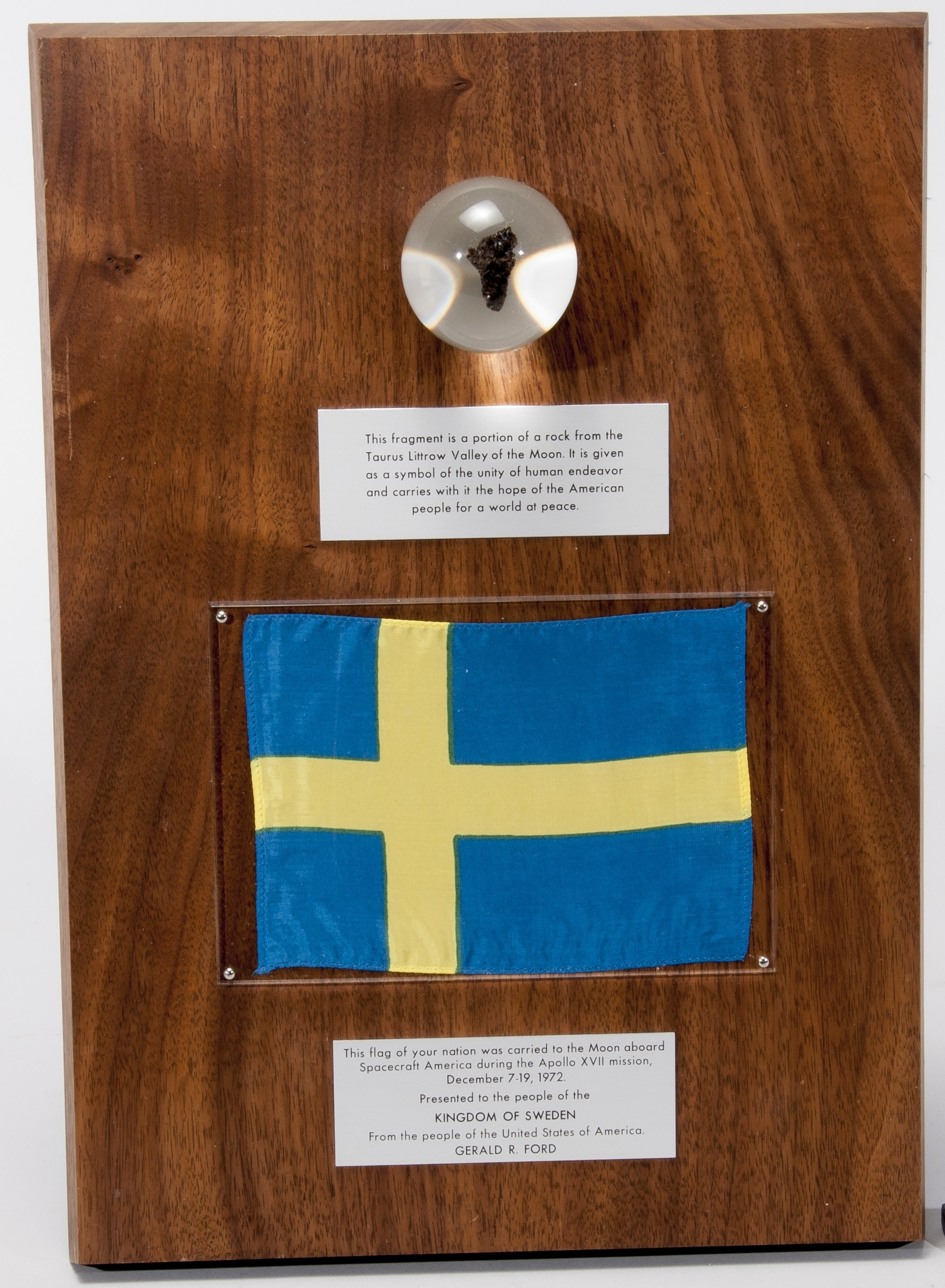 Apollo 17 lunar sample display being part of the collections of National museum for Science and Technology, Sweden.